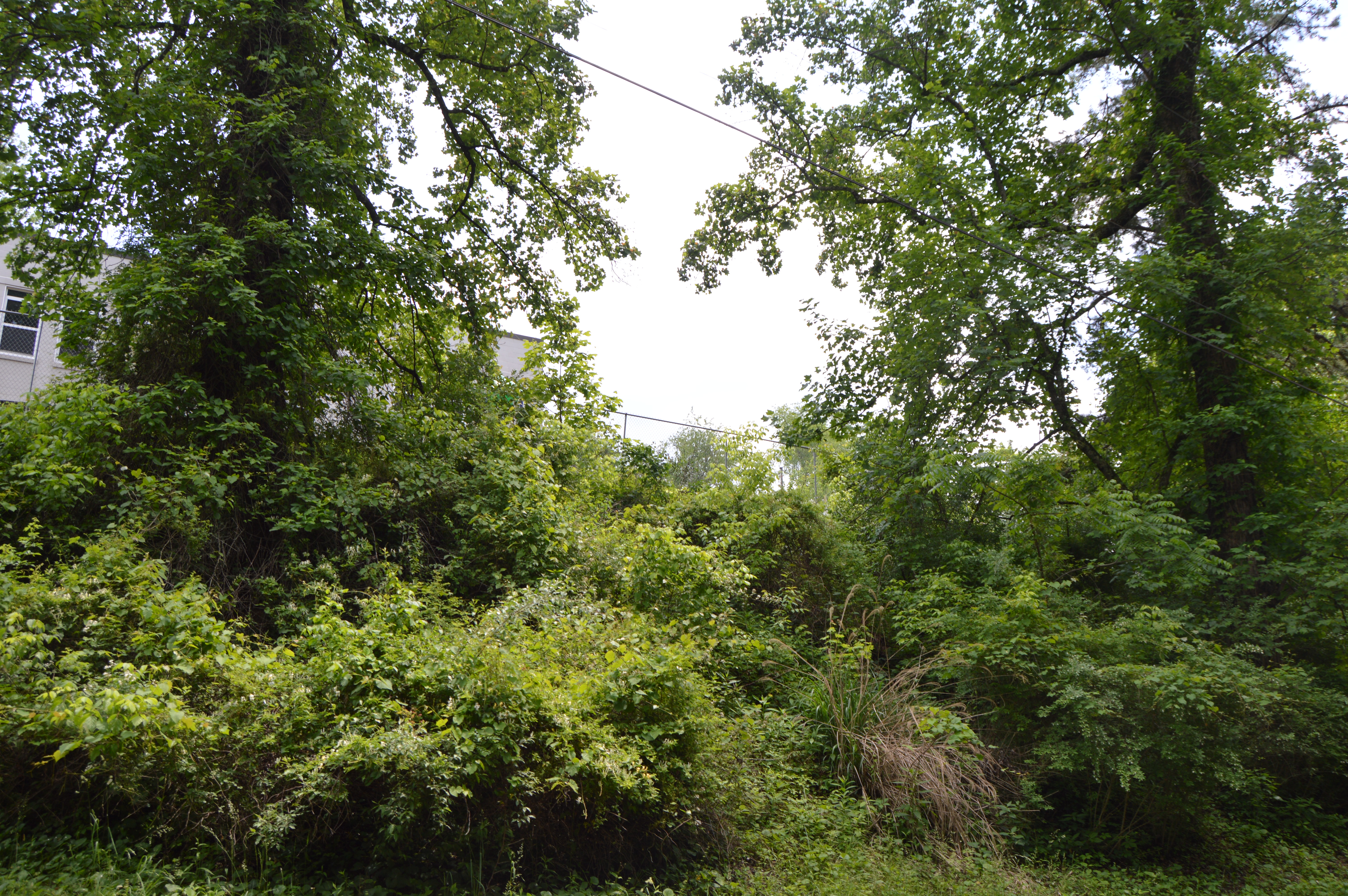 Site of the Old Sutton High School (now occupied by the temporary structure behind the tree) on the eastern side of Hill Road in Sutton, West Virginia, United States. The school was listed on the National Register of Historic Places, and despite its demolition in 2008, it has not yet been de-designated.